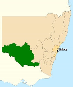 Incorporates or developed using Administrative Boundaries ©PSMA Australia Limited licensed by the Commonwealth of Australia under Creative Commons Attribution 4.0 International licence (CC BY 4.0). Derived from State and Territory Boundaries from the Australian Bureau of Statistics under Creative Commons Attribution 2.5 Australia license (CC BY 2.5 AU)